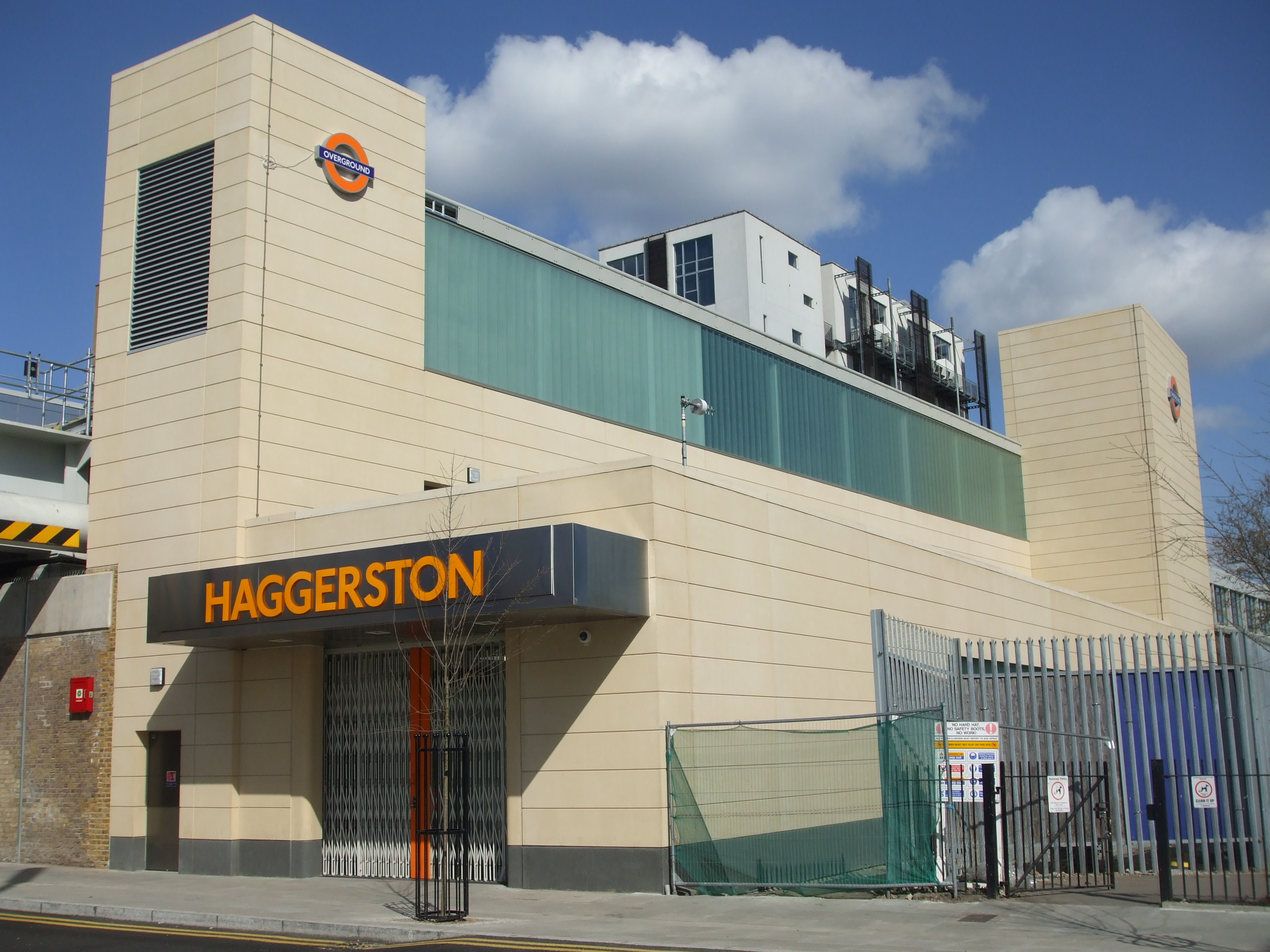 Haggerston station on the London Overground, a few days prior to opening in April 2010.